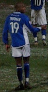 Neal Trotman. Image cropped from original at flickr.